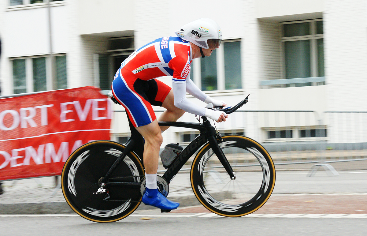 2011 UCI Road World Championships – Men's time trial - Reidar Borgersen, Denmark